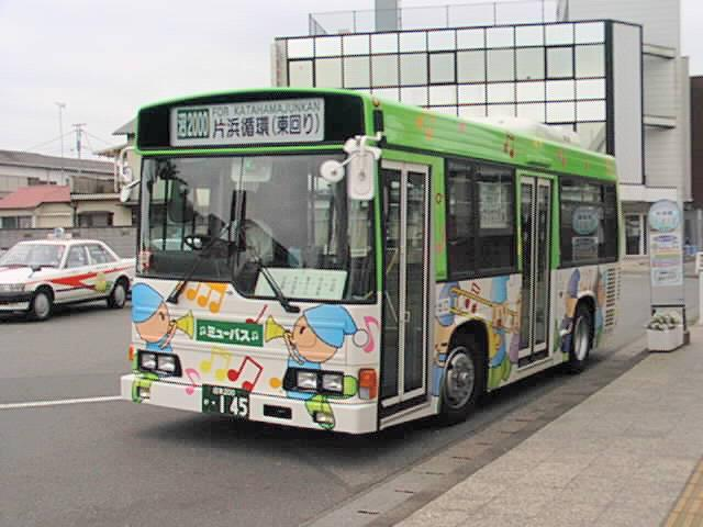 Hino rainbow KK-HR1JEE for Fujikyu City Bus #E2051 "Mu-Bus" at Katahama Station